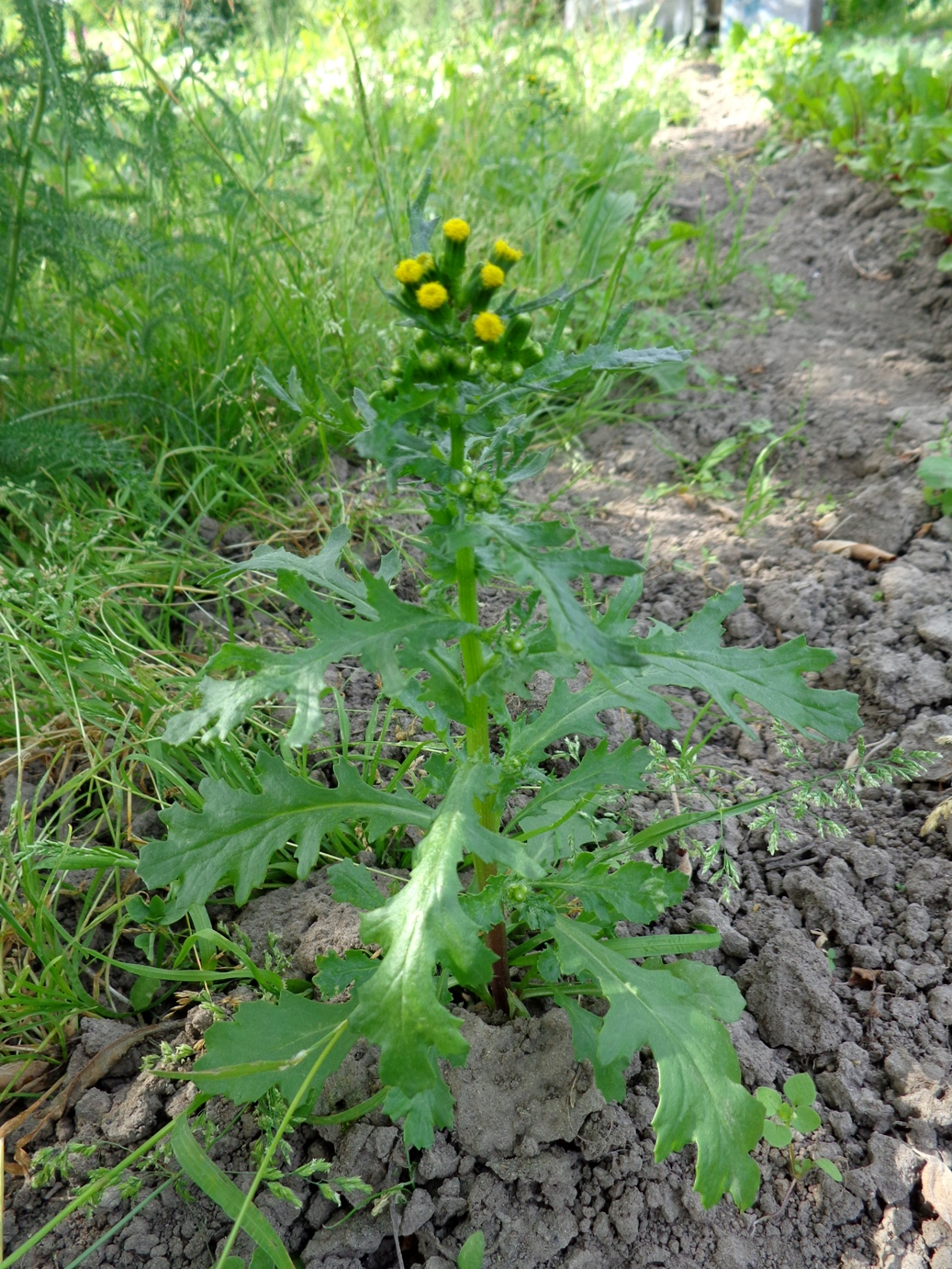 Senecio vulgaris. Found in Bērzi village near Bauska city, Latvia